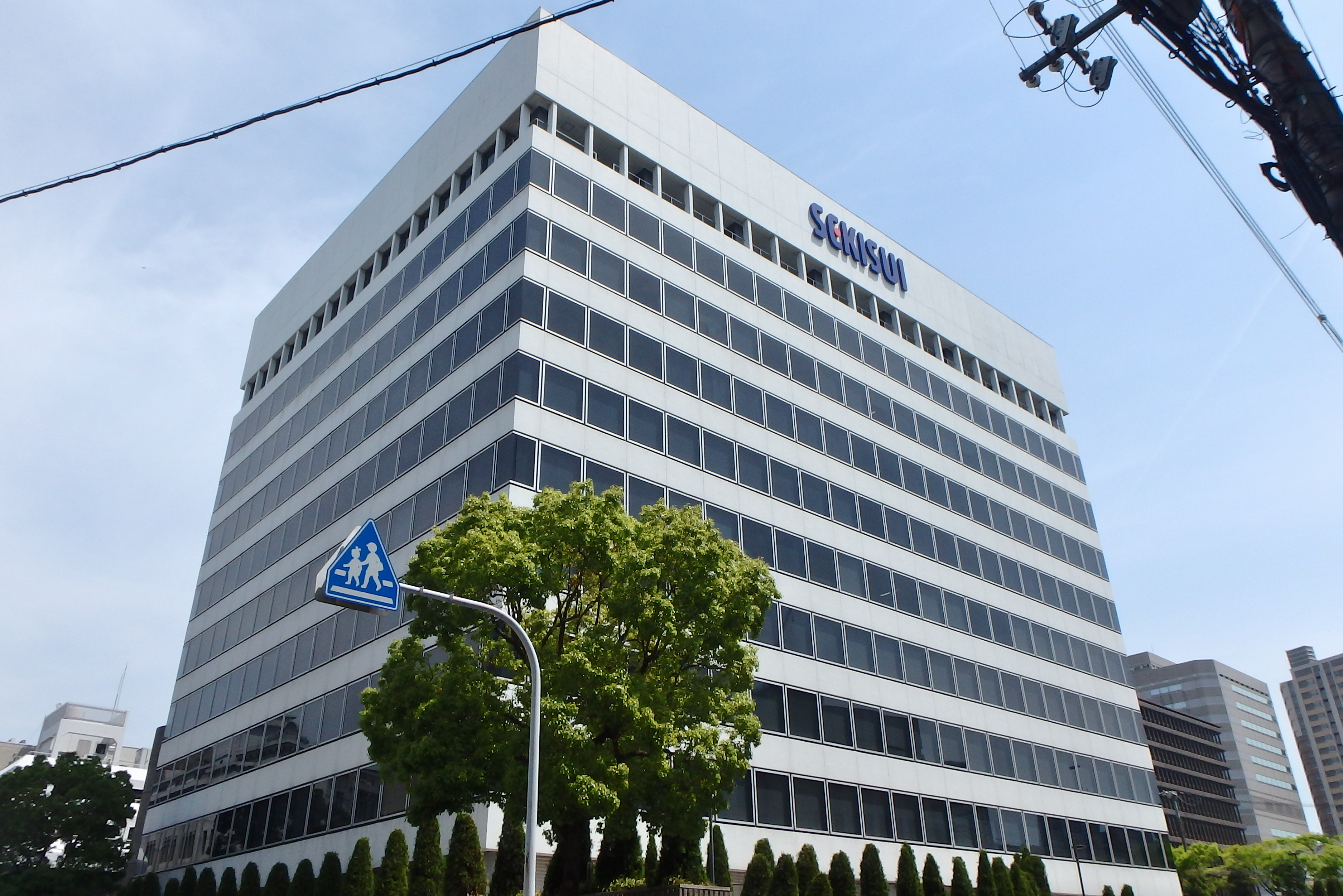 Dojima Kanden Building Osaka prefecture,Japan